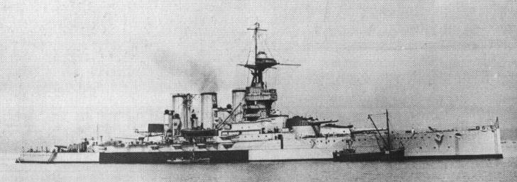 Broadside view of HMS Tiger; Imperial War Museum image SP 1890